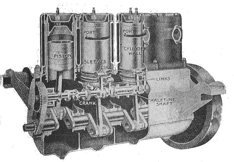 'Ch. II 'Fig. 21 Knight single sleeve valve engine The "Silent Knight" type of sleeve valve engine, using double sleeves. This type of sleeve valve was used in Daimler vehicles.